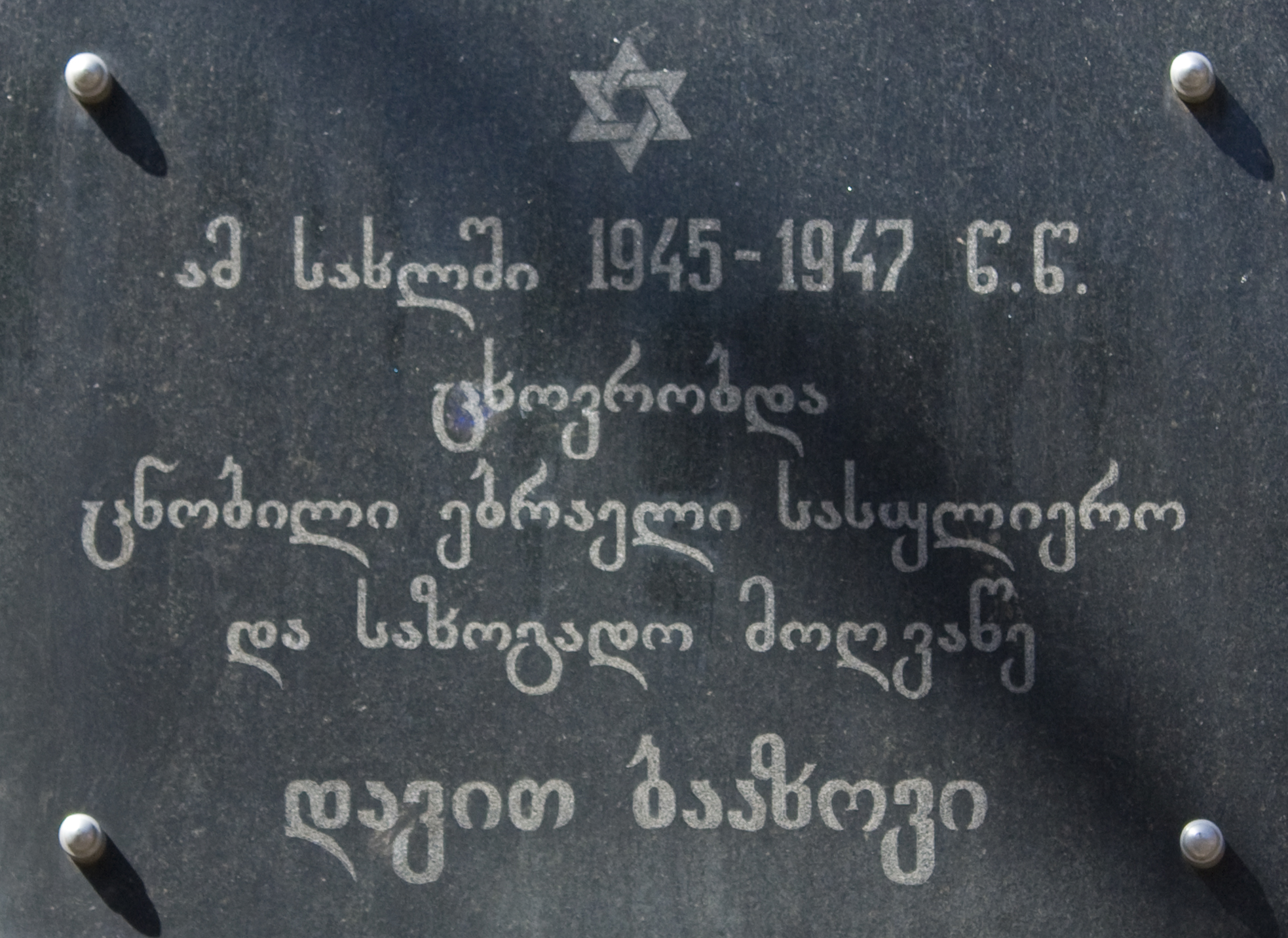 The memory board on the house of where David Baazov lived between 1945-1947 Location: Jerusalem square, Tbilisi